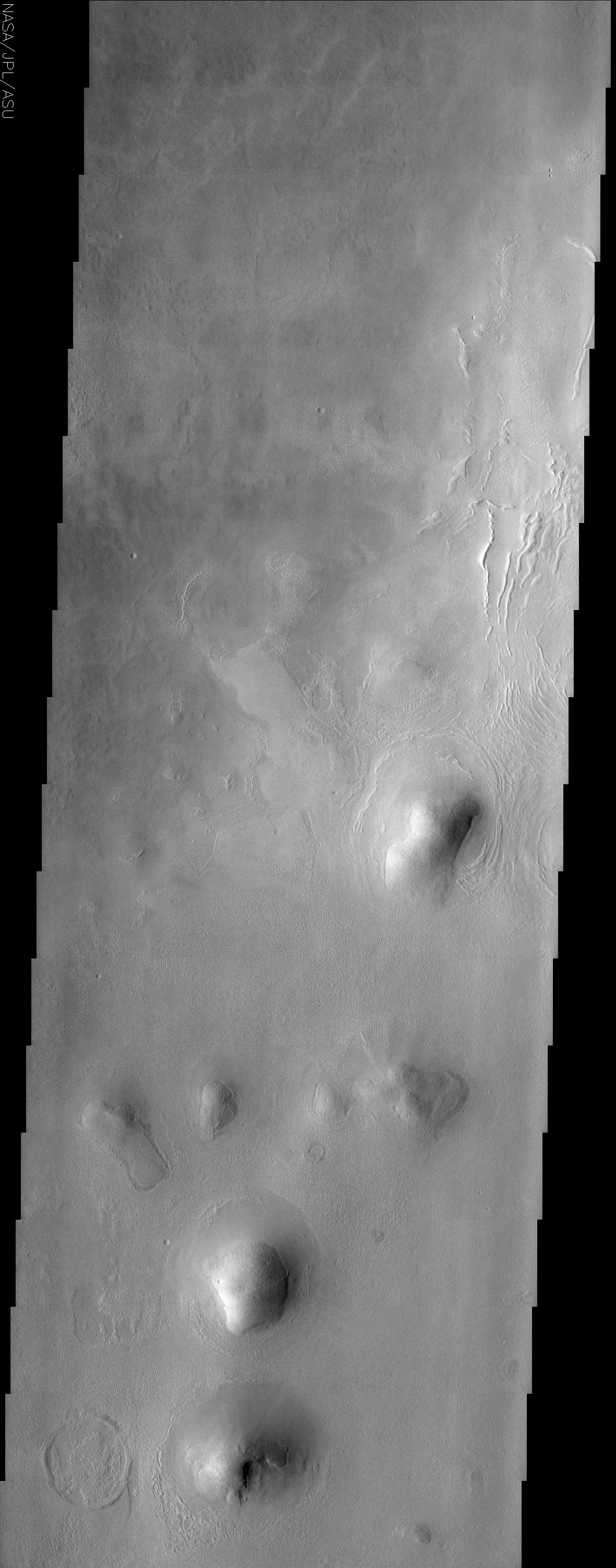 Arcadia Planitia on Mars - detail